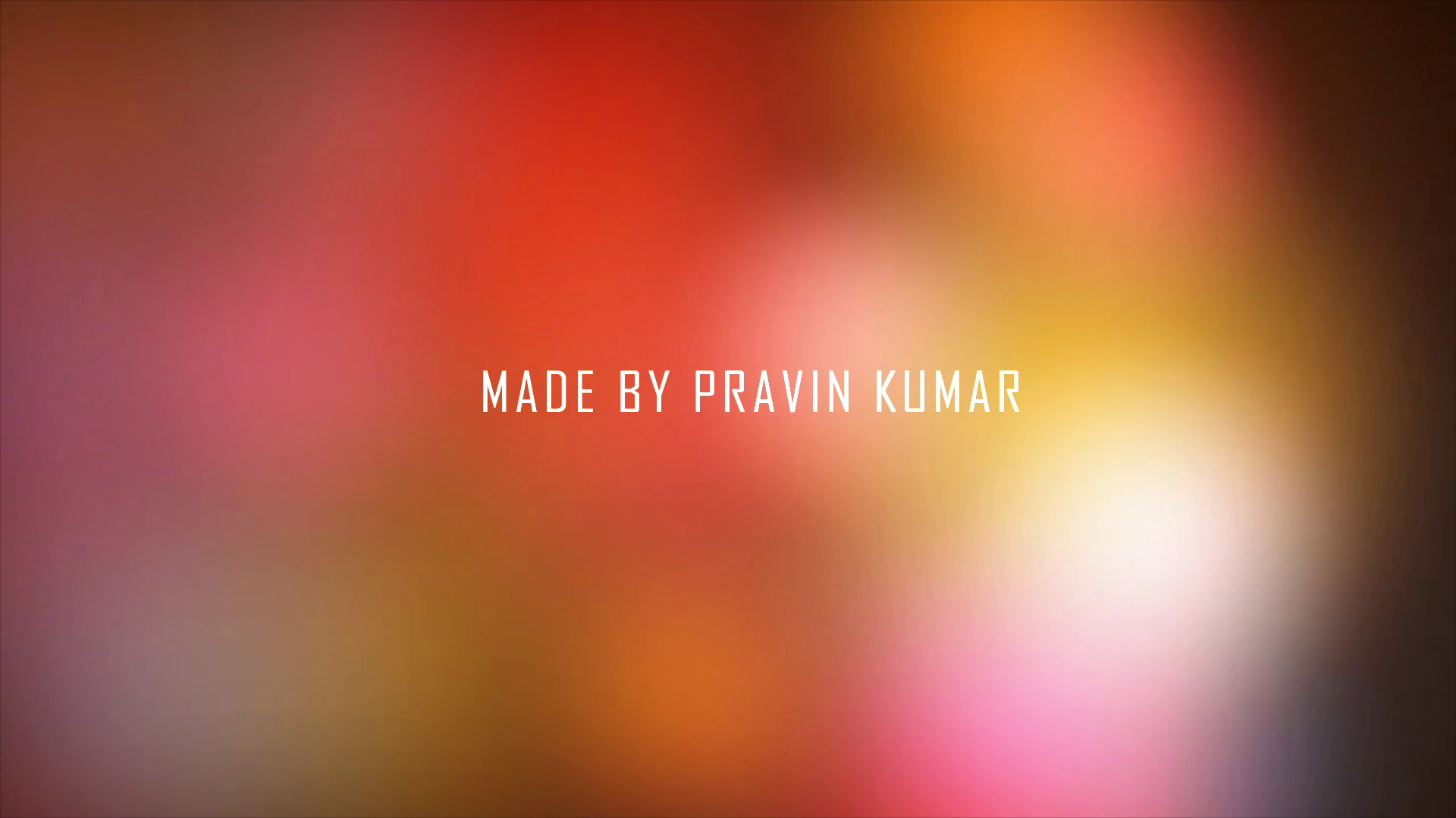 School intro